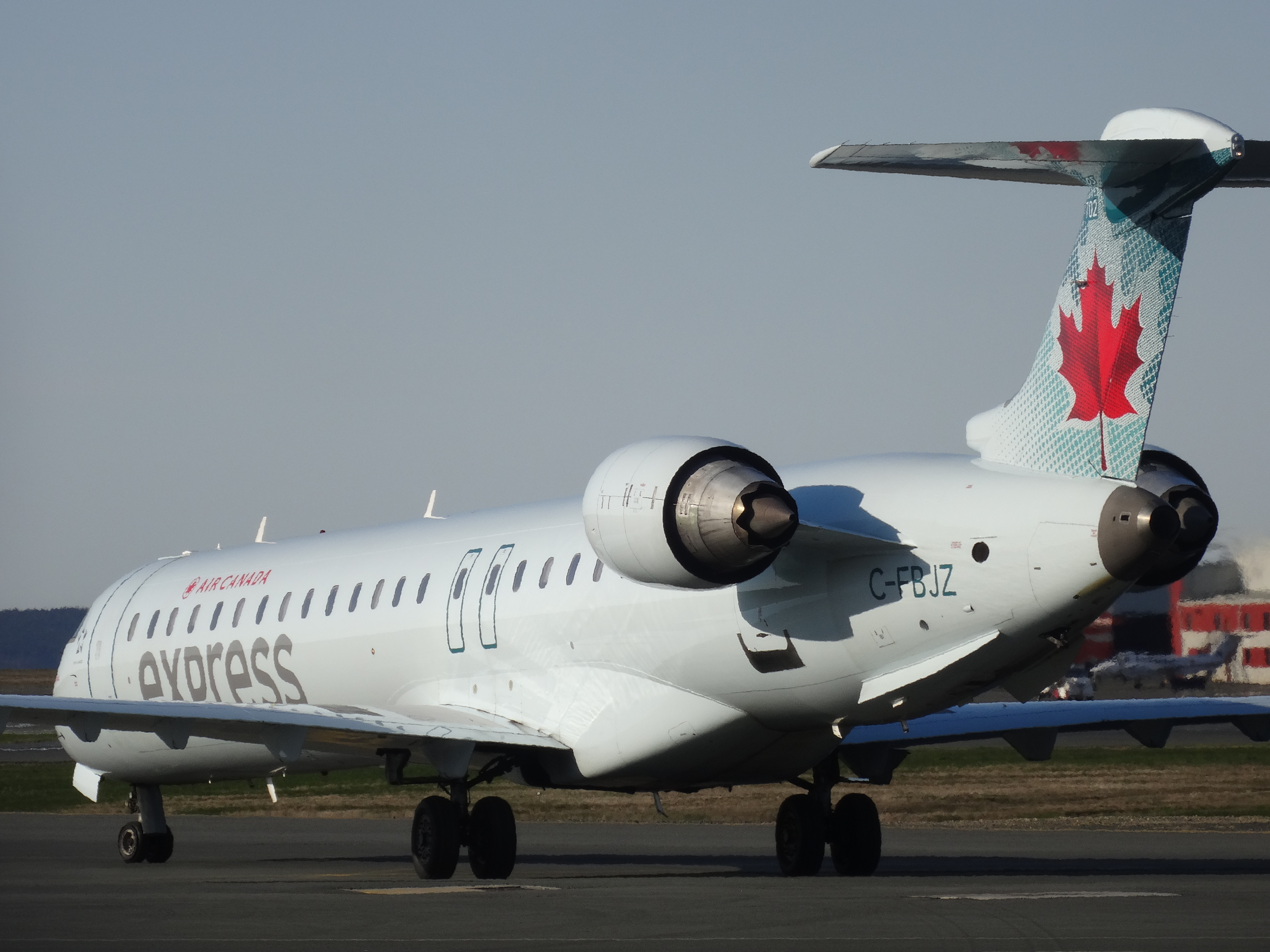 Air Canada Express CRJ705 getting ready to depart for Halifax